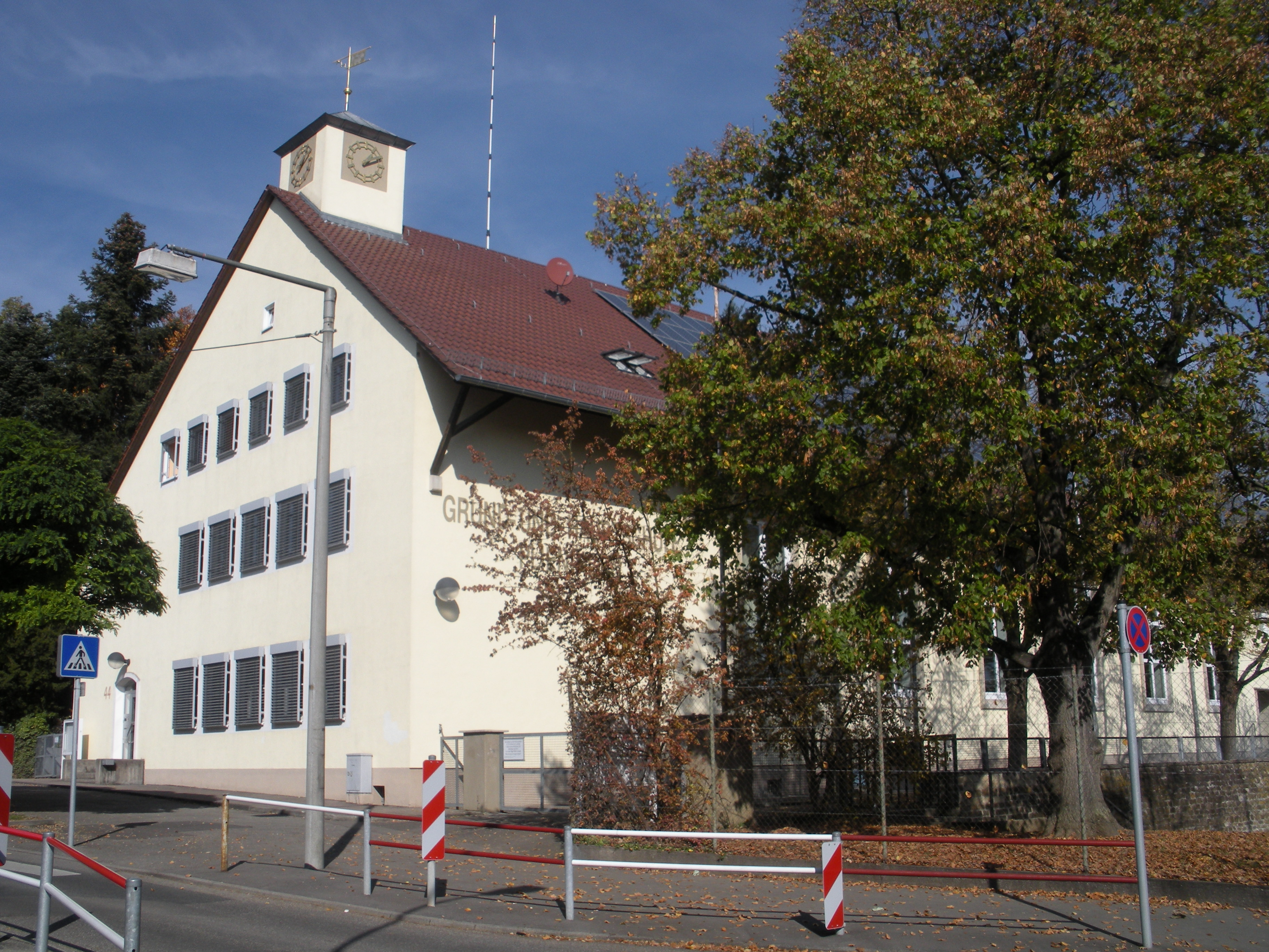 Primary School in Stuttgart-Plieningen